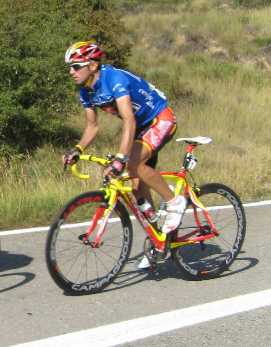 Alejandro Valverde, 2008 Vuelta a España, 9th stage, Alto Gallego, Spain.